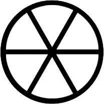 "Slavic six-spoked wheel", symbol of the early ethnic religions of the Slavs. Based on the graphics by JerryKeey